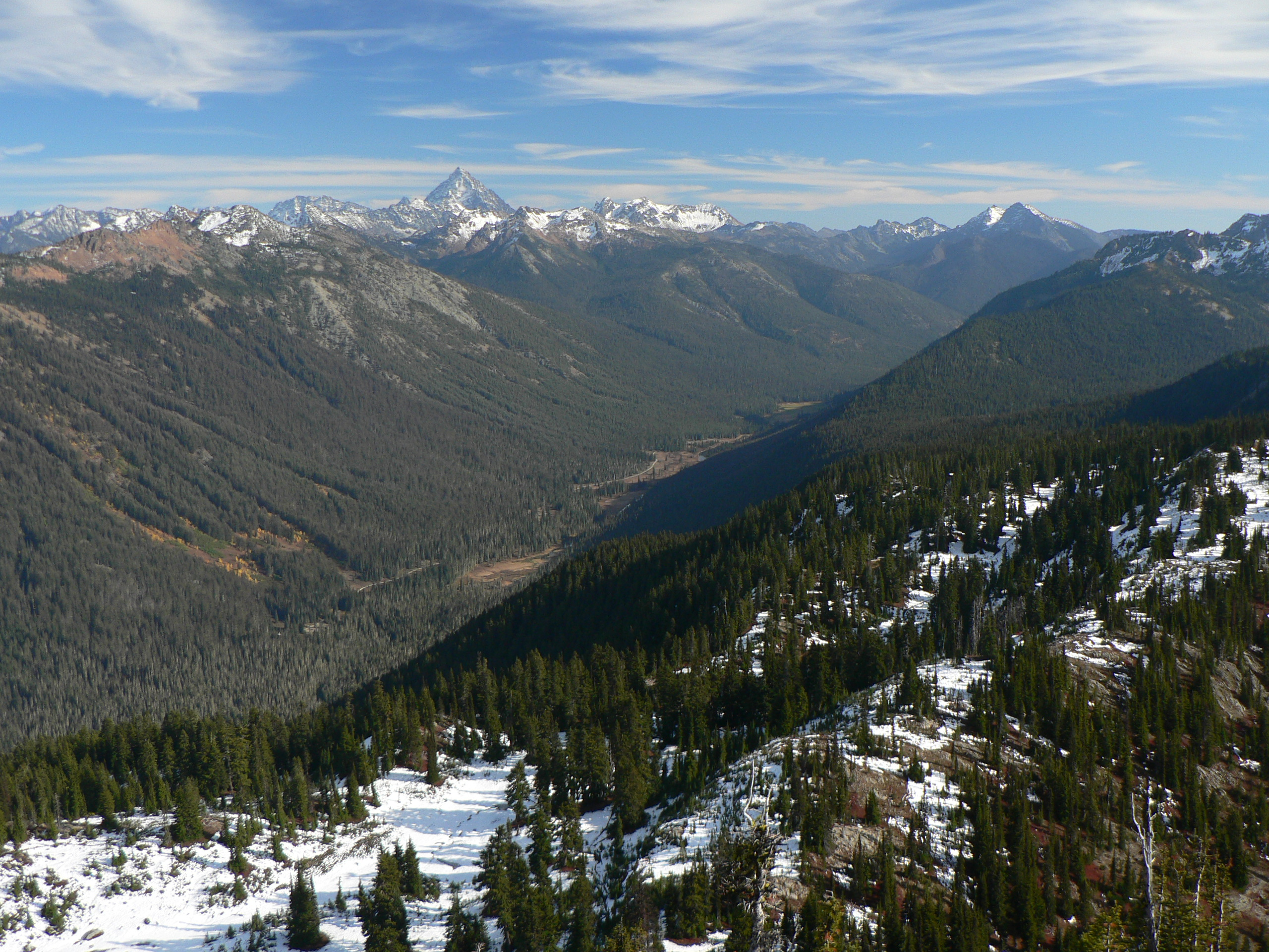 Mount Stuart (left center, 9415 feet); Ingalls Peak (center, 7662 feet); Hawkins Mountain (right, 7100 feet); Cle Elum River Valley (foreground) at the base of the Wenatchee Mountains